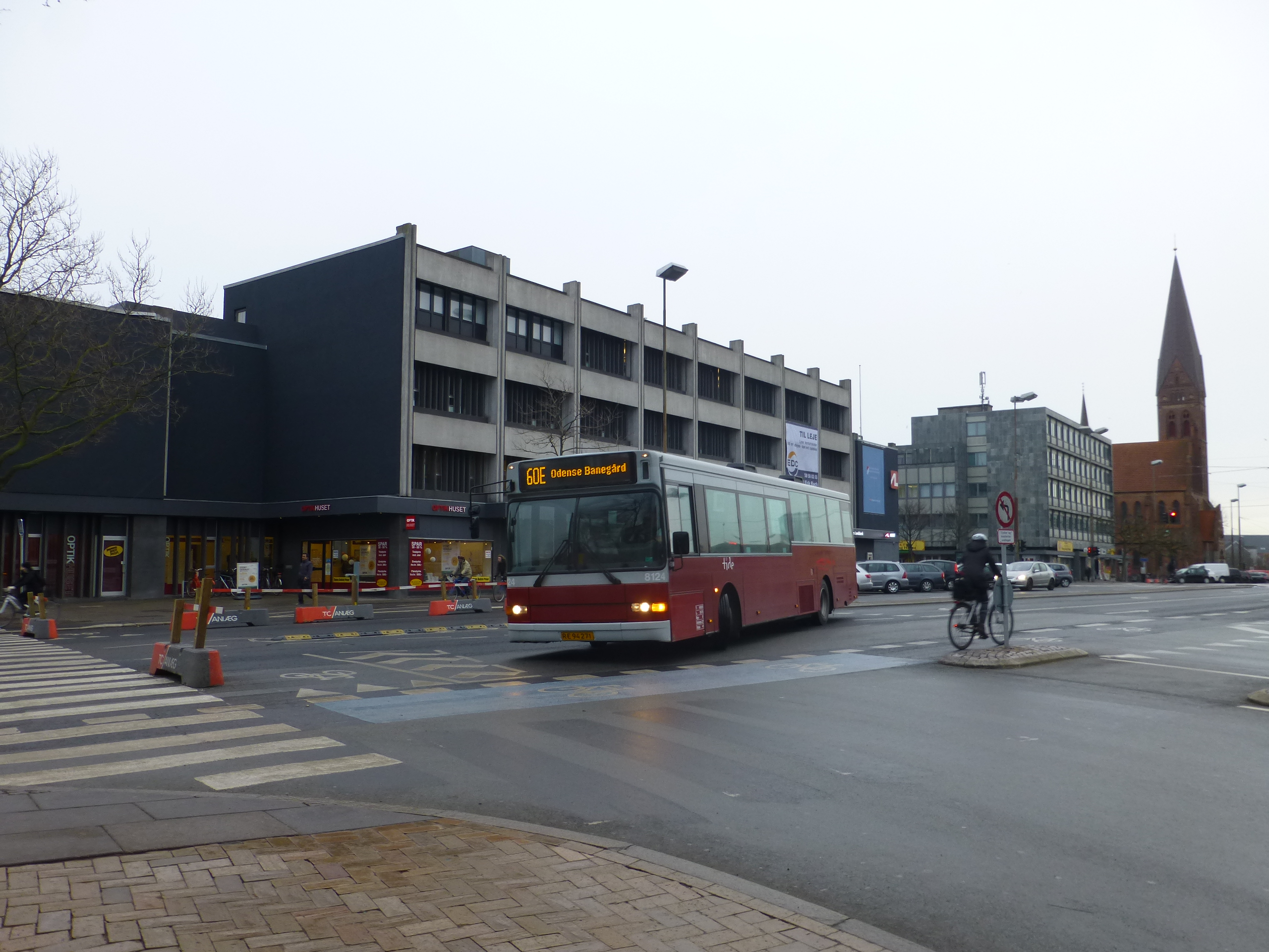 Fynbus line 60E on Thomas B. Thriges Gade at Nørregade in Odense in Denmark. The bus is in the old design, which will disappear in august 2015. The church at the right is Sankt Albani Kirke.